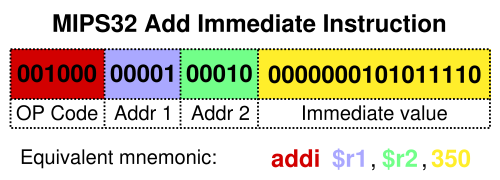 this is MIPS32_instruction